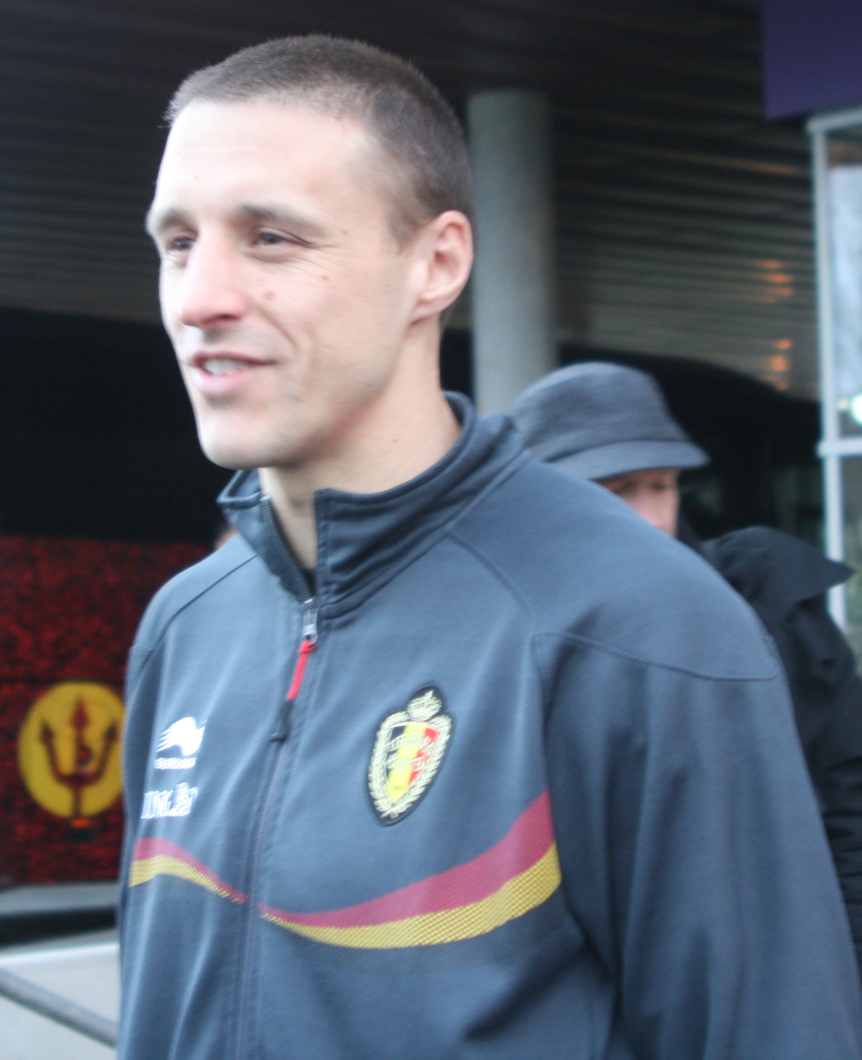 Timmy Simons during a training session with the belgian Red Devils